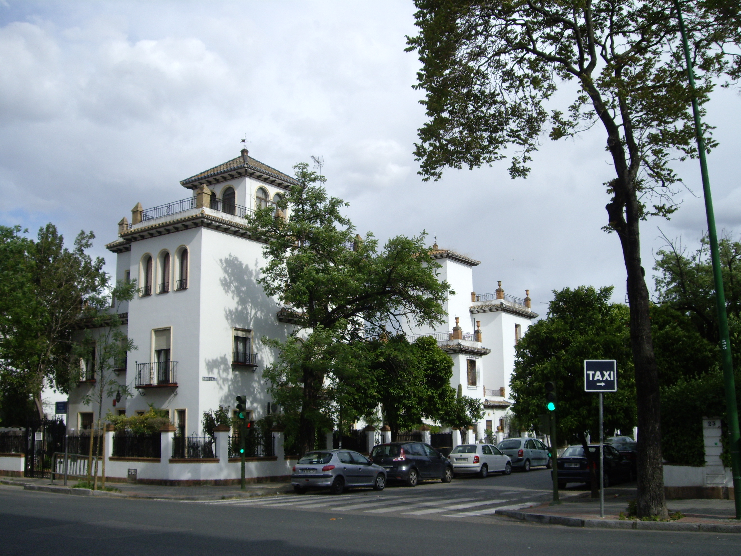 Barrio de Heliópolis en Sevilla. Foto tomada desde la Avenida Padre García Tejero en la rotonda que la une con la Avenida Reina Mercedes.